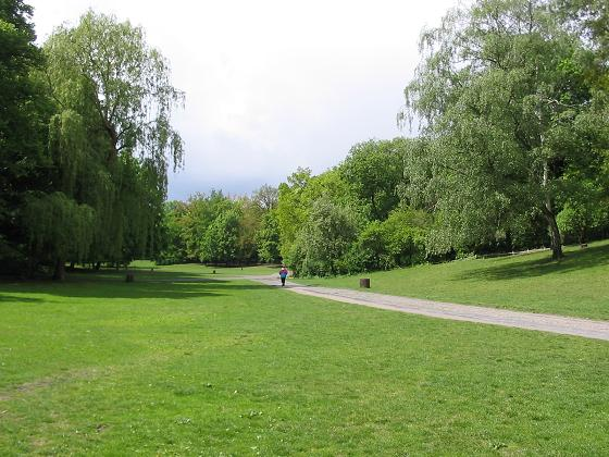 The "Rudolph-Wilde-Park" in Berlin; meadow in the western part